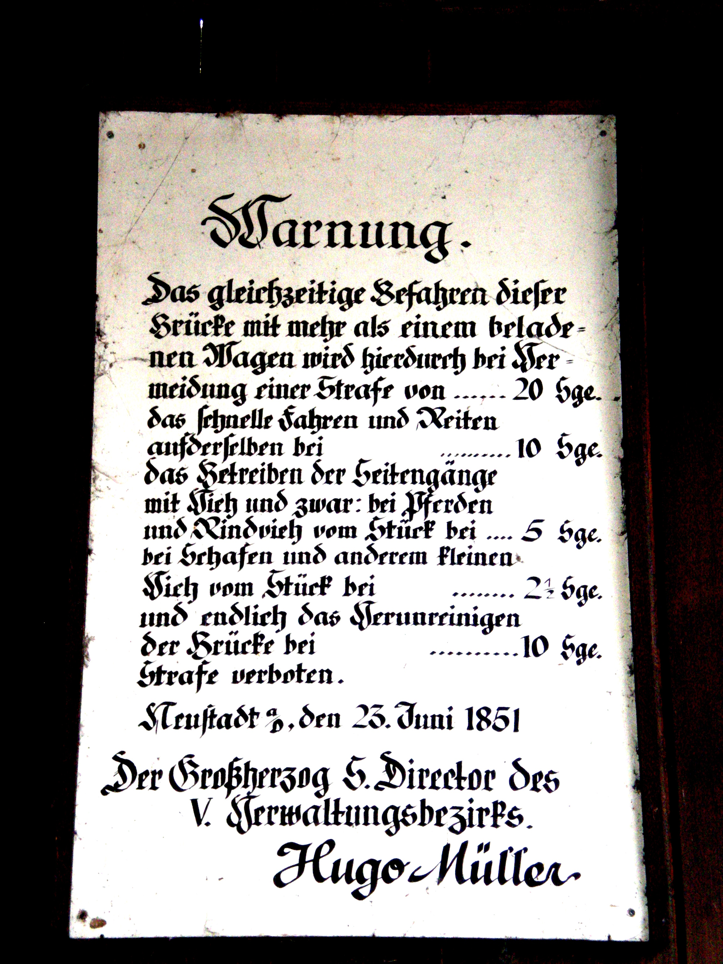 Old sign at Wuenschendorf Covered Bridge, Germany.